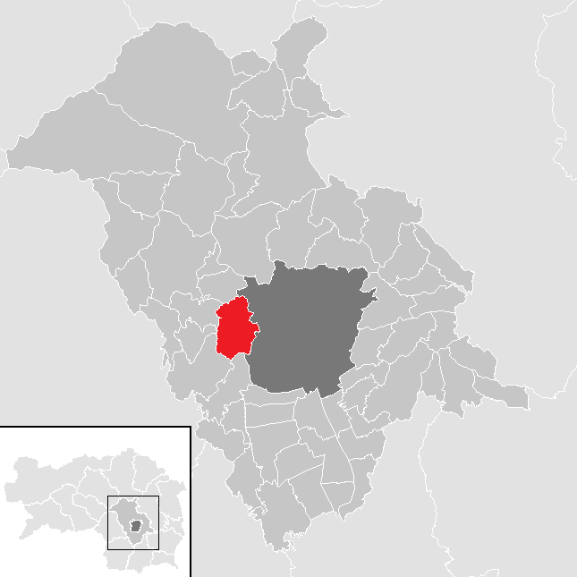 District Graz-Umgebung, Styria